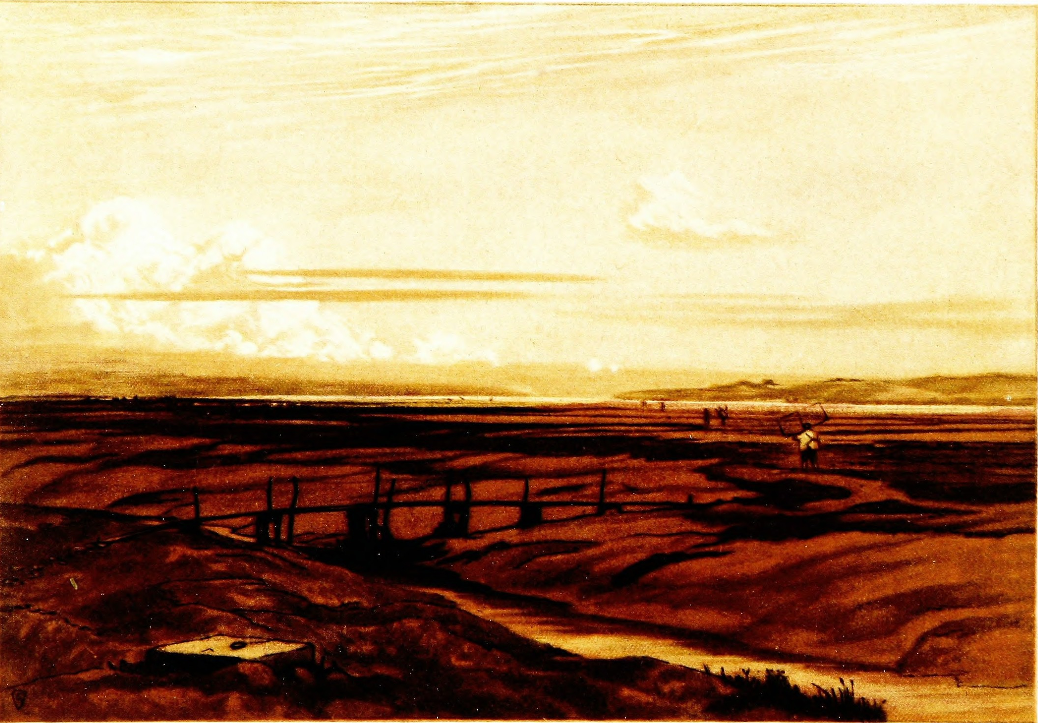 Title: Modern etchings, mezzotints and dry-points Year: 1913 (1910s) Authors: Holme, Charles, 1848-1923 Salaman, Malcolm C. (Malcolm Charles), 1855-1940 Taylor, E. A Zilcken, Ph., 1857-1930 Levetus, A. S Deubner, Ludwig, 1877-1946 Laurin, Thorsten Subjects: Etching Mezzotint engraving Dry-point Publisher: London, New York (etc.) "The Studio" ltd. Text Appearing Before Image: ' Text Appearing After Image: 89